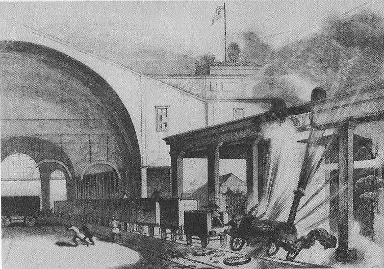 Steam locomotive "Windsbraut" exploding on the platform of Dresden Station in Leipzig. Contemporary engraving.